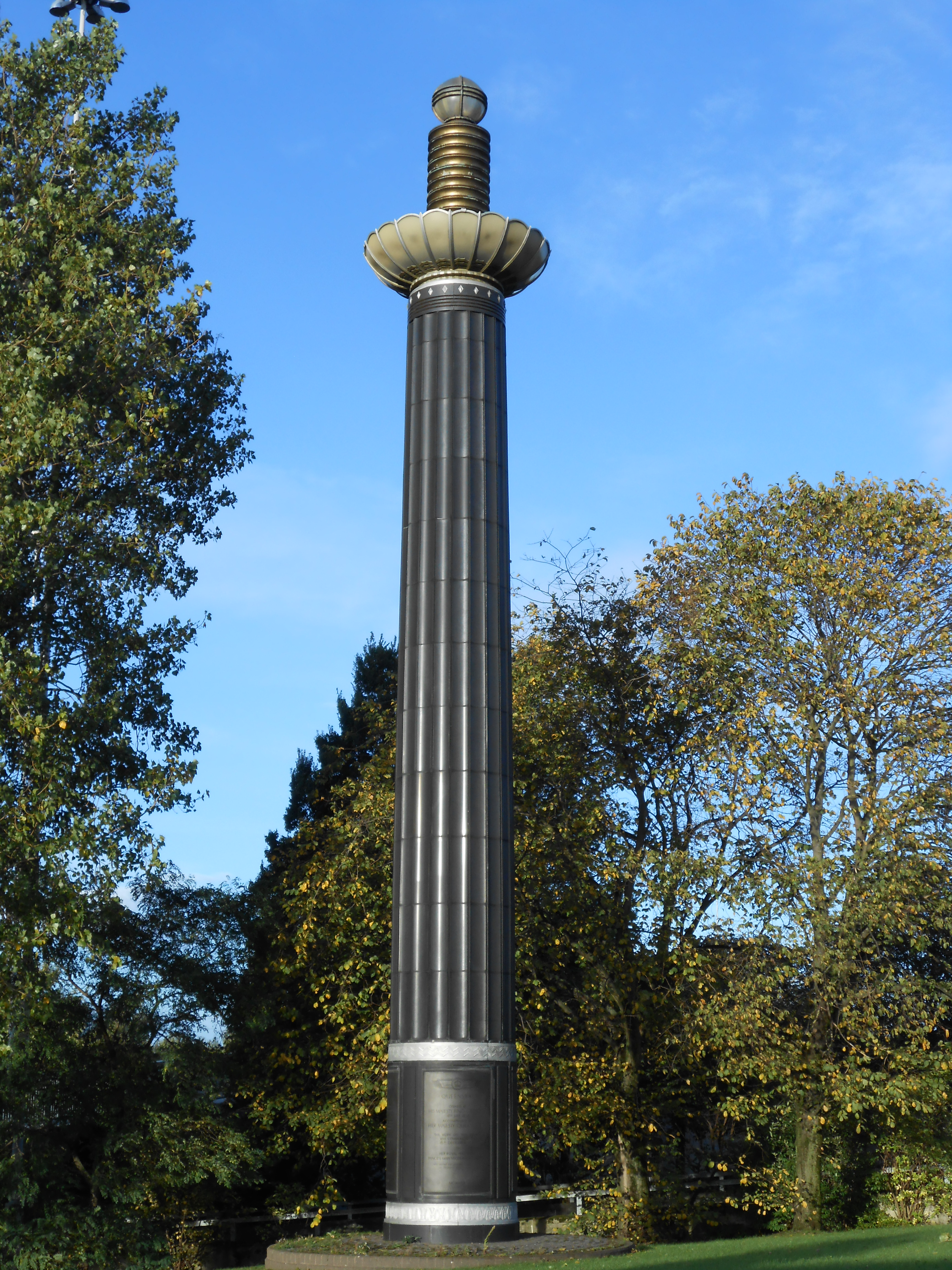 Queensway tunnel pylon in Birkenhead, Merseyside, England.